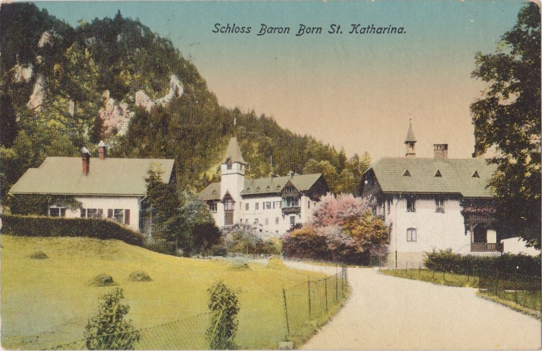 Postcard of Jelendol, Tržič.